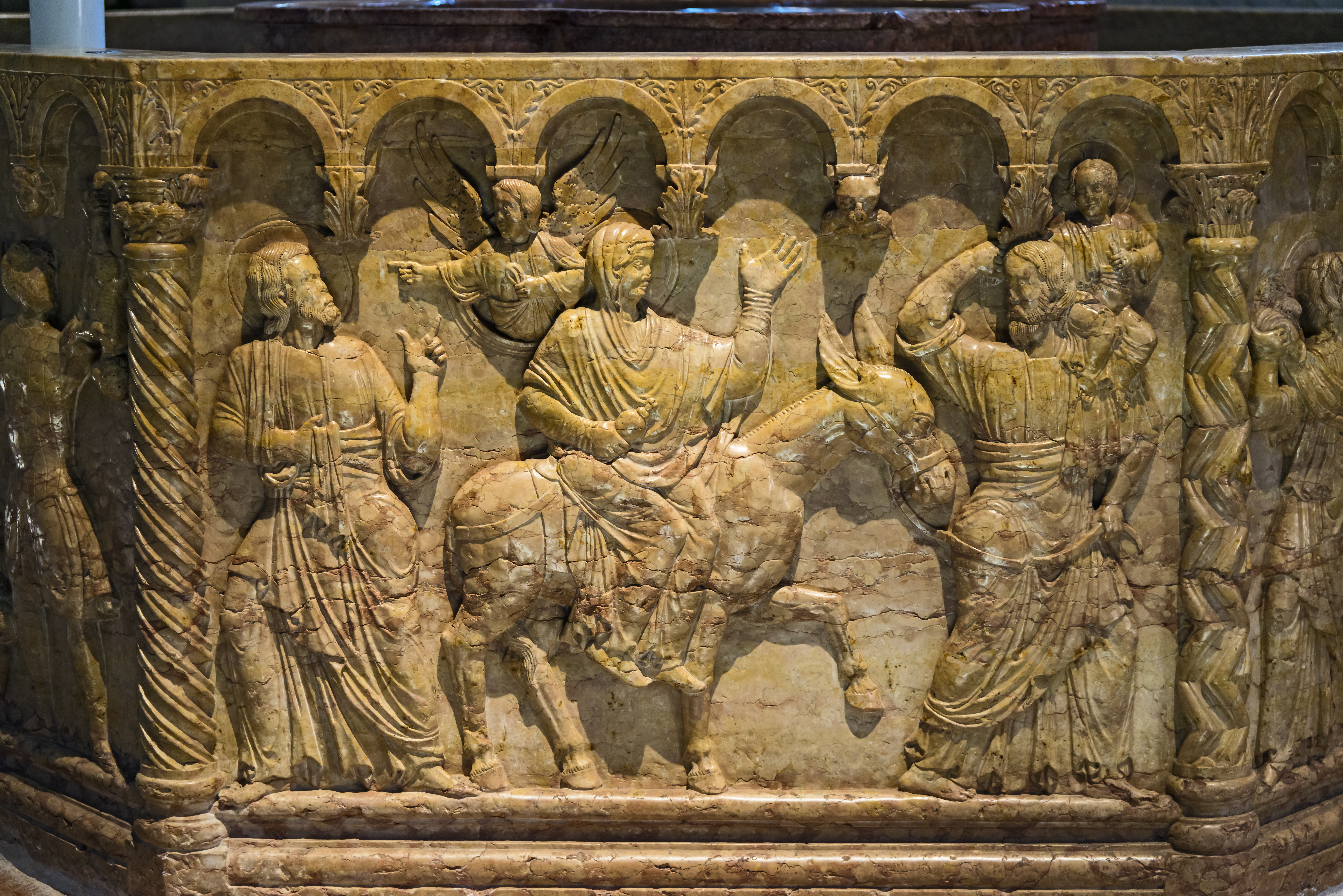 San Giovanni in Fonte - Old church included in the complex of the Verona Cathedral - The baptismal font of the late IXe century - Flight into Egypt.